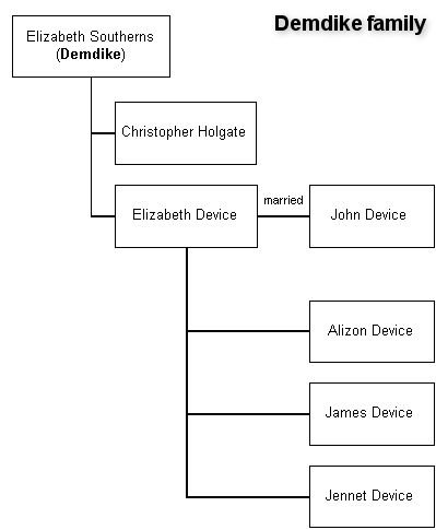 The Demdike family involved in the Pendle witch trials of 1612.